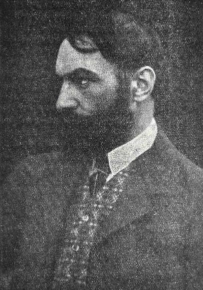 Gustau Violet's picture (taken from L'album du Centenaire, 1910)